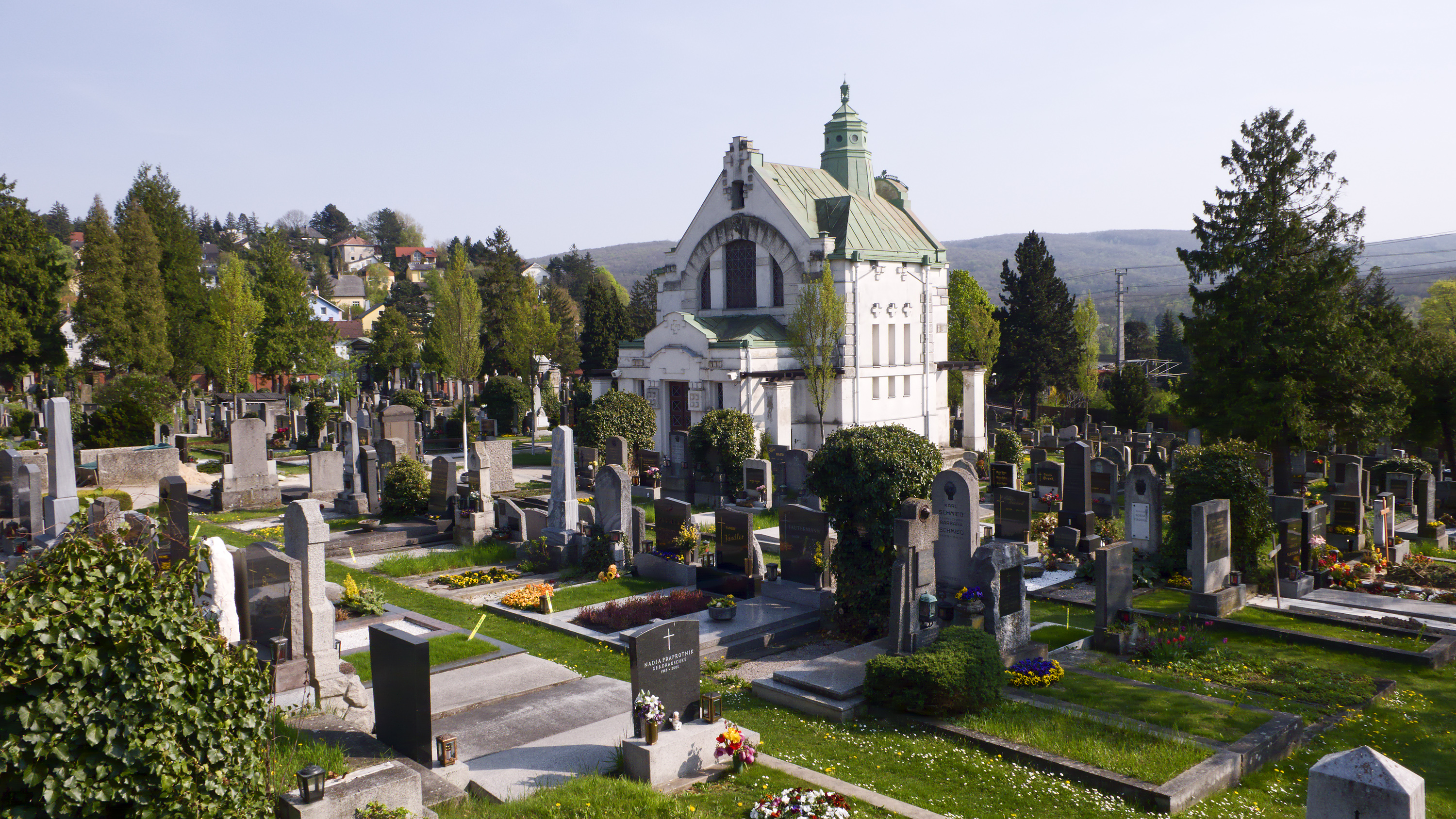 Cemetary Friedhof Hadersdorf-Weidlingau in Vienna Penzing